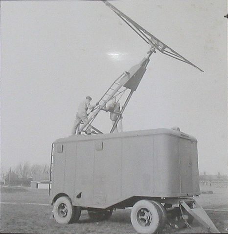 Crew raise the antenna boom of the Zone Position Indicator (ZPI), a medium-range radar system that was used for early warning and passed information to a nearby Accurate Position Finder (APF) for target tracking. In the field, both radars would be deployed within tens of meters of each other, powered by a common generator unit set up between them. Once deployed, the horizontal boom on the top of the mast would rotate to scan for targets in all directions. Together, the ZPI and APF formed the Gun Laying radar, Mark IIIc, designed and built in Canada, the country's first locally designed radar system. The APF was based on the cavity magnetron, which had been demonstrated to National Research Council members in late 1940, before the UK designers had delivered their own similar design. Unlike the UK, the Canadians had no medium-range mobile radar systems, so they designed the ZPI to fill that need. Unlike the APF, the ZPI was based on simpler conventional tube-based electronics, operating on the common 1.5 metre band that was widely used by UK radars. The electronics design was adapted from the Air-Surface-Vessel radar design that had been put into production in Toronto for the US Navy and Coast Guard. Since the ZPI and APF worked on very different frequencies, they could be used in close concert withougt causing interference.